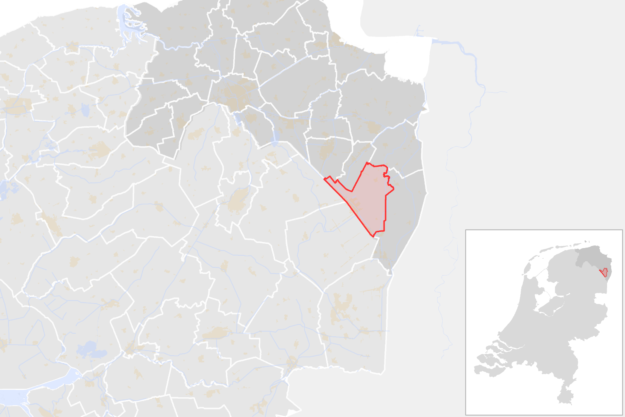 Locator map showing municipality boundary of one of the 390 Dutch municipalities (as of 2016)